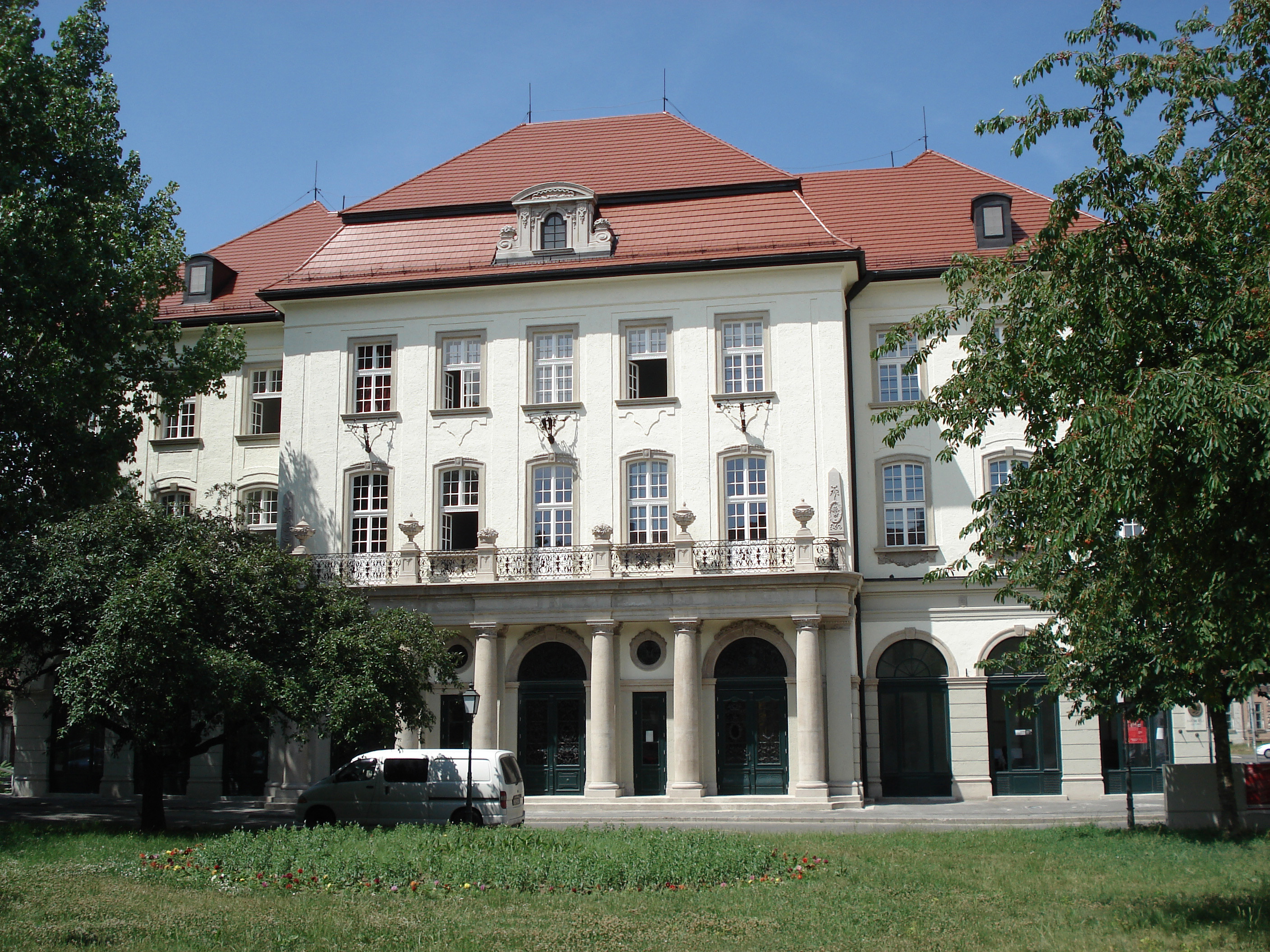 Music Palace in Miskolc, Hungary, 2011